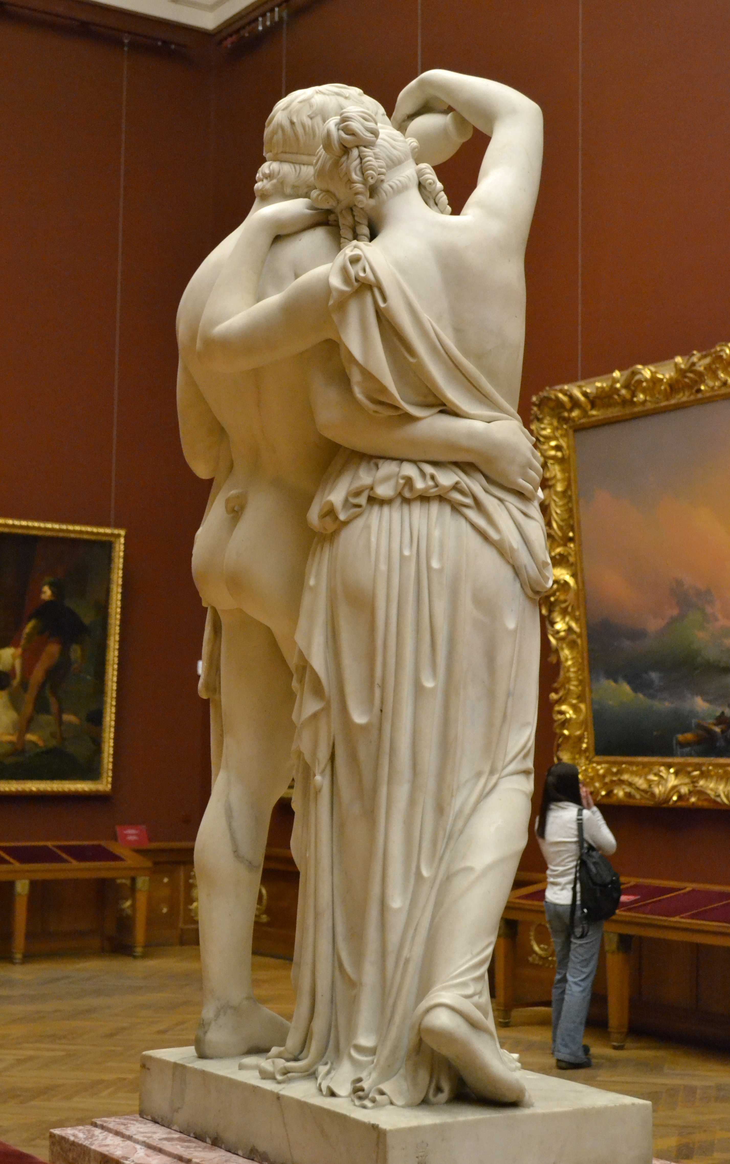 Faun and Baechante (back) — Boris Orlovsky. Faun and Baechante After the plaster original of 1826-1827 Marble State Russian Museum, St. Petersburg, Russia